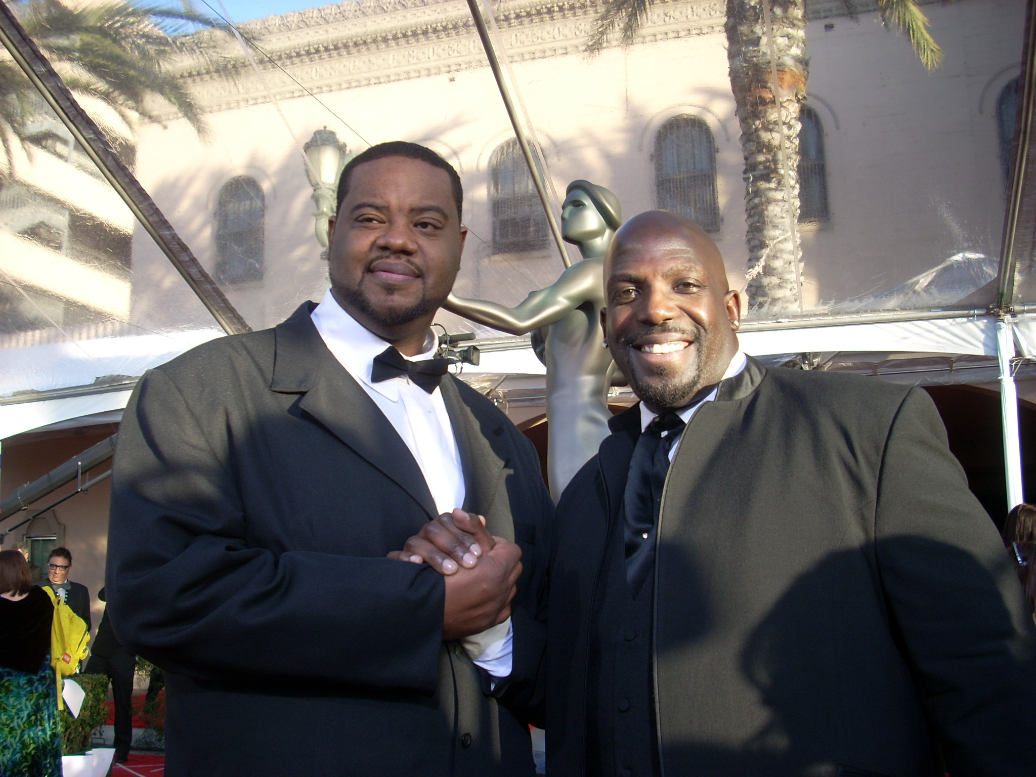 Grizz Chapman, Kevin "Dot-Com" Brown, 2009 SAG Awards, Shrine Auditorium, Los Angeles